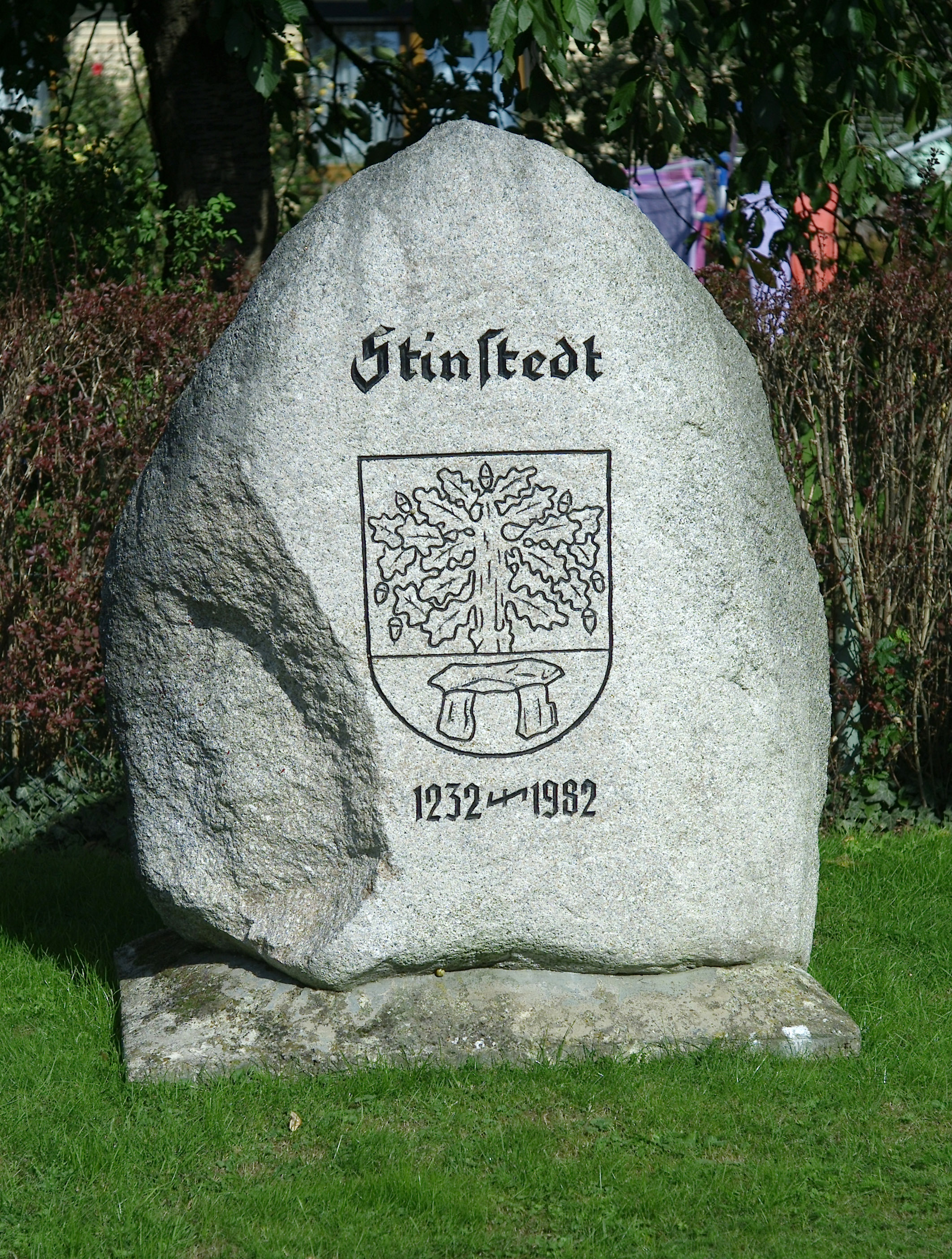 Erratic from Elbe-Weser area, SE of Bremerhaven, Northern Germany